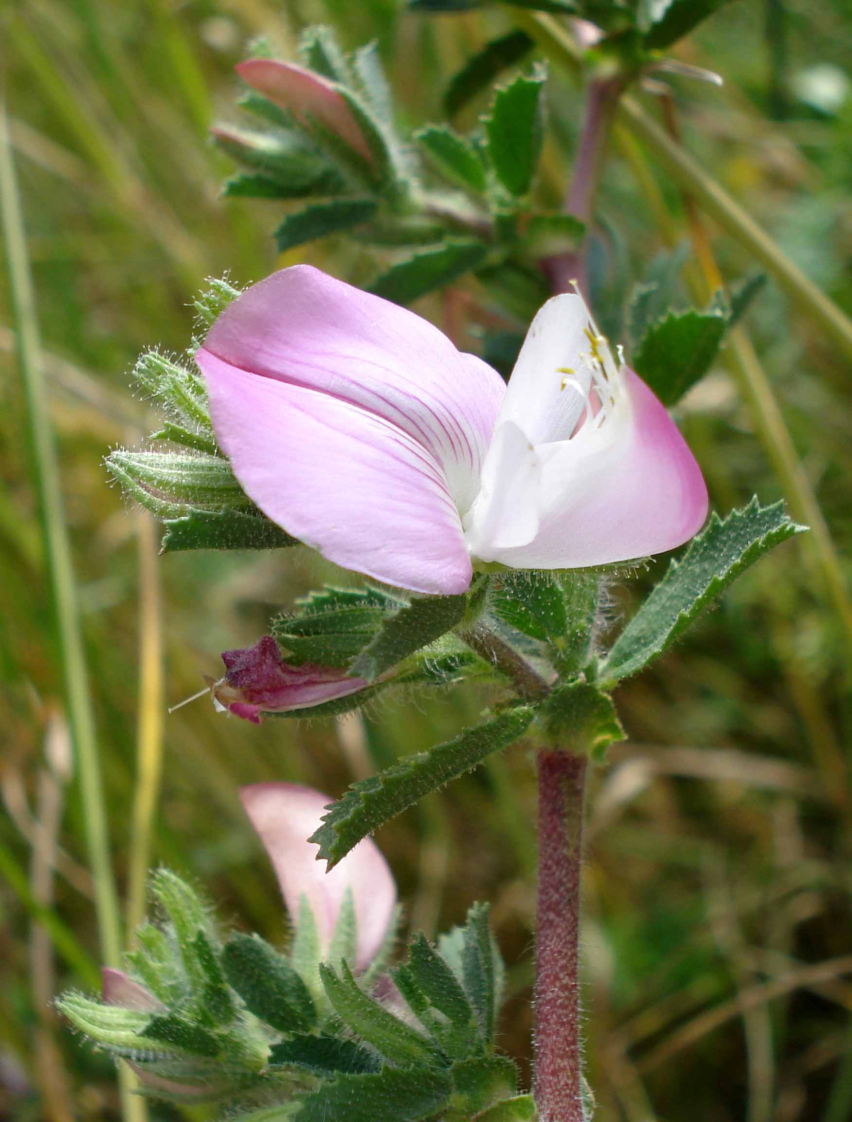 Ononis repens (Unterfranken, Germany)